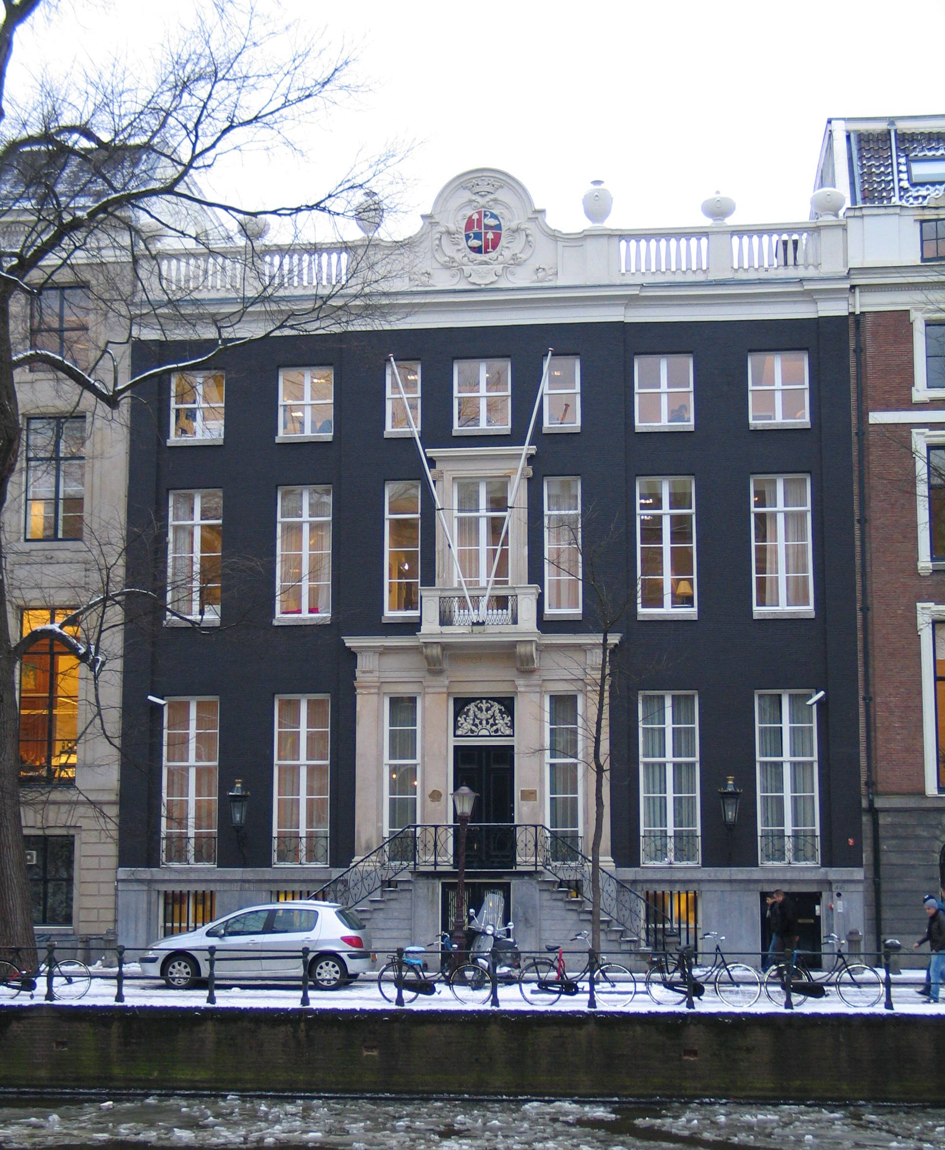 Canalhouse on Herengracht, Amsterdam, on the Golden Bend